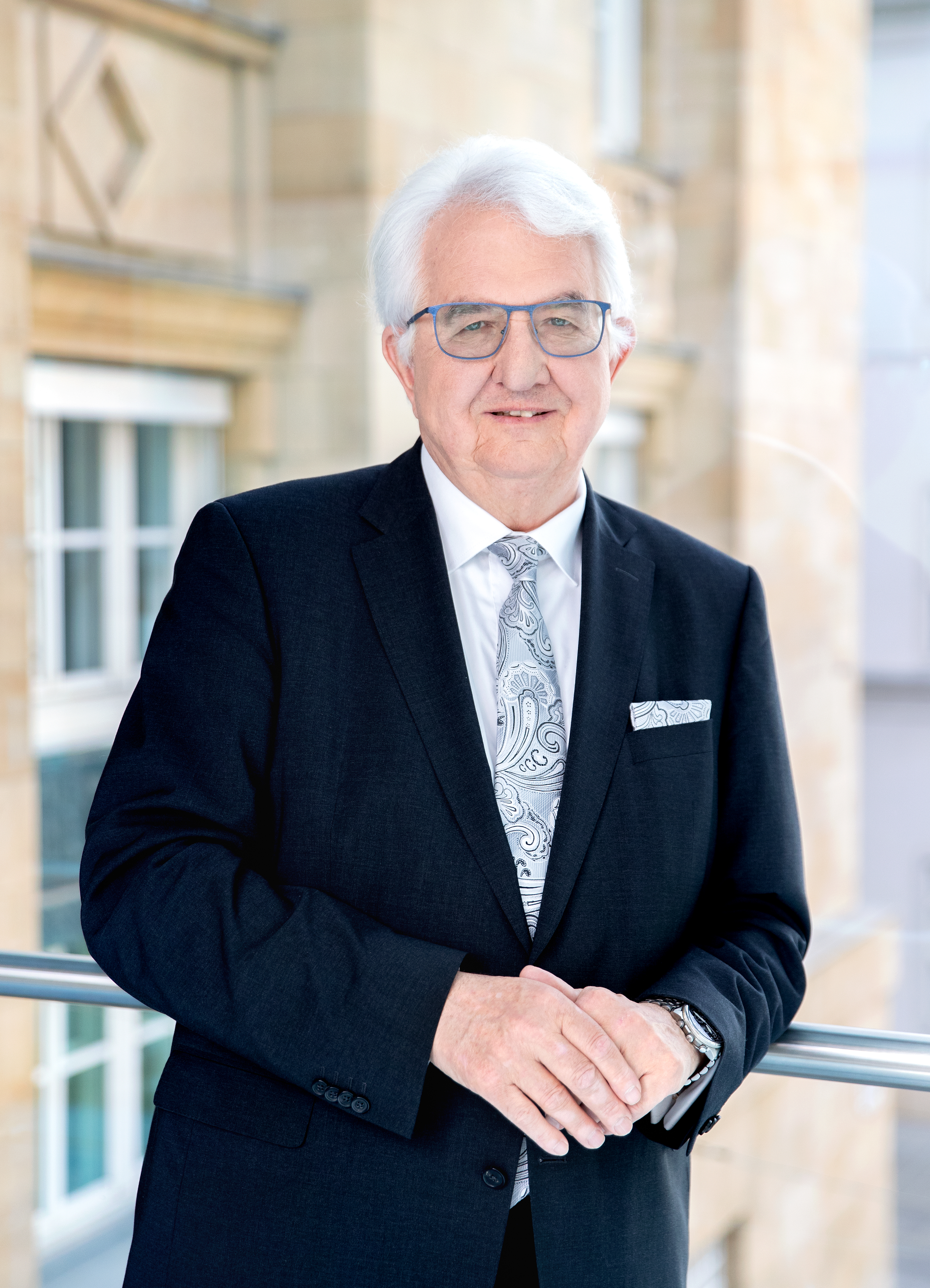 Robert Holzmann, Governor of the Central Bank of Austria (Oesterreichische Nationalbank), 2020.